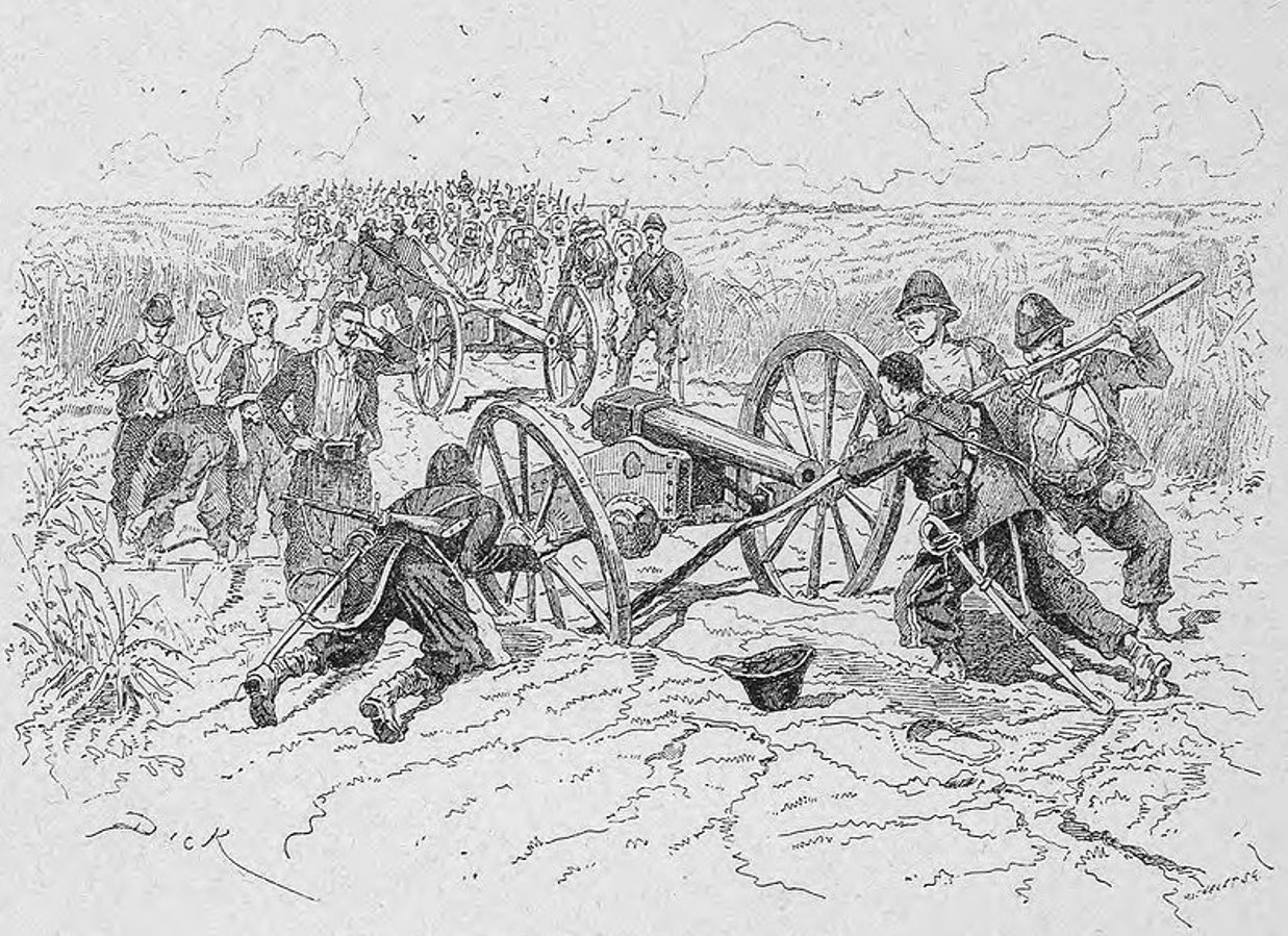 Troops marching towards Lang Son with artillery.